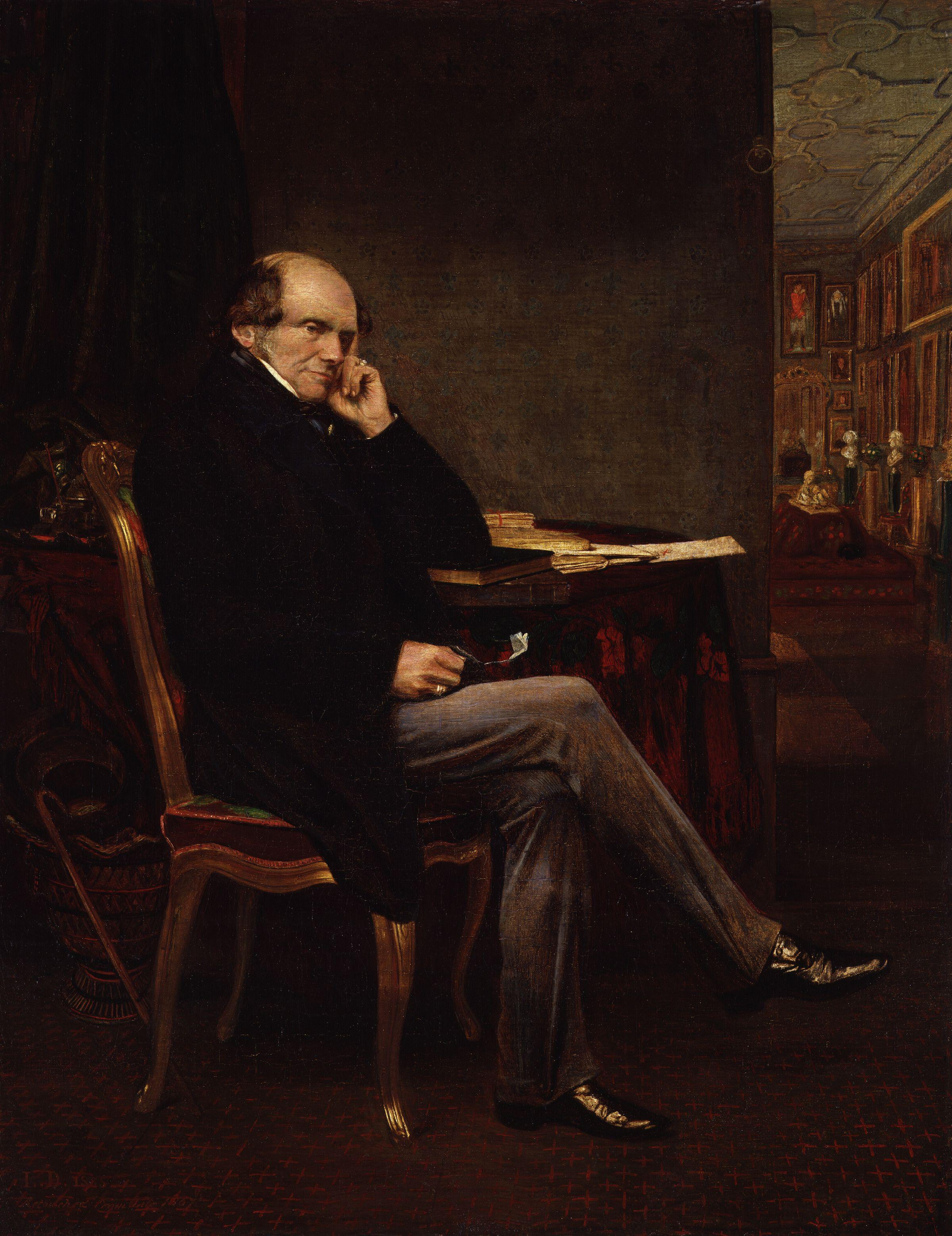 All images in this batch have been confirmed as author died before 1939 according to the official death date listed by the NPG.